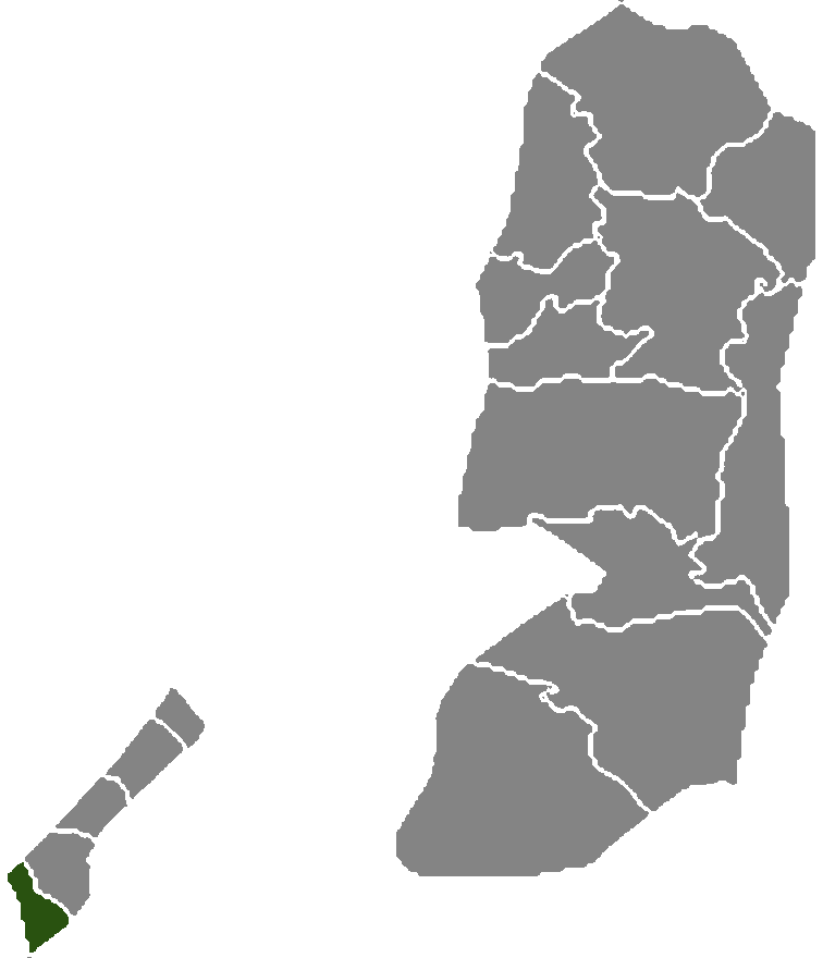 Locator map of the Rafah Governorate — in the southernmost Gaza Strip, of the Palestinian territories.